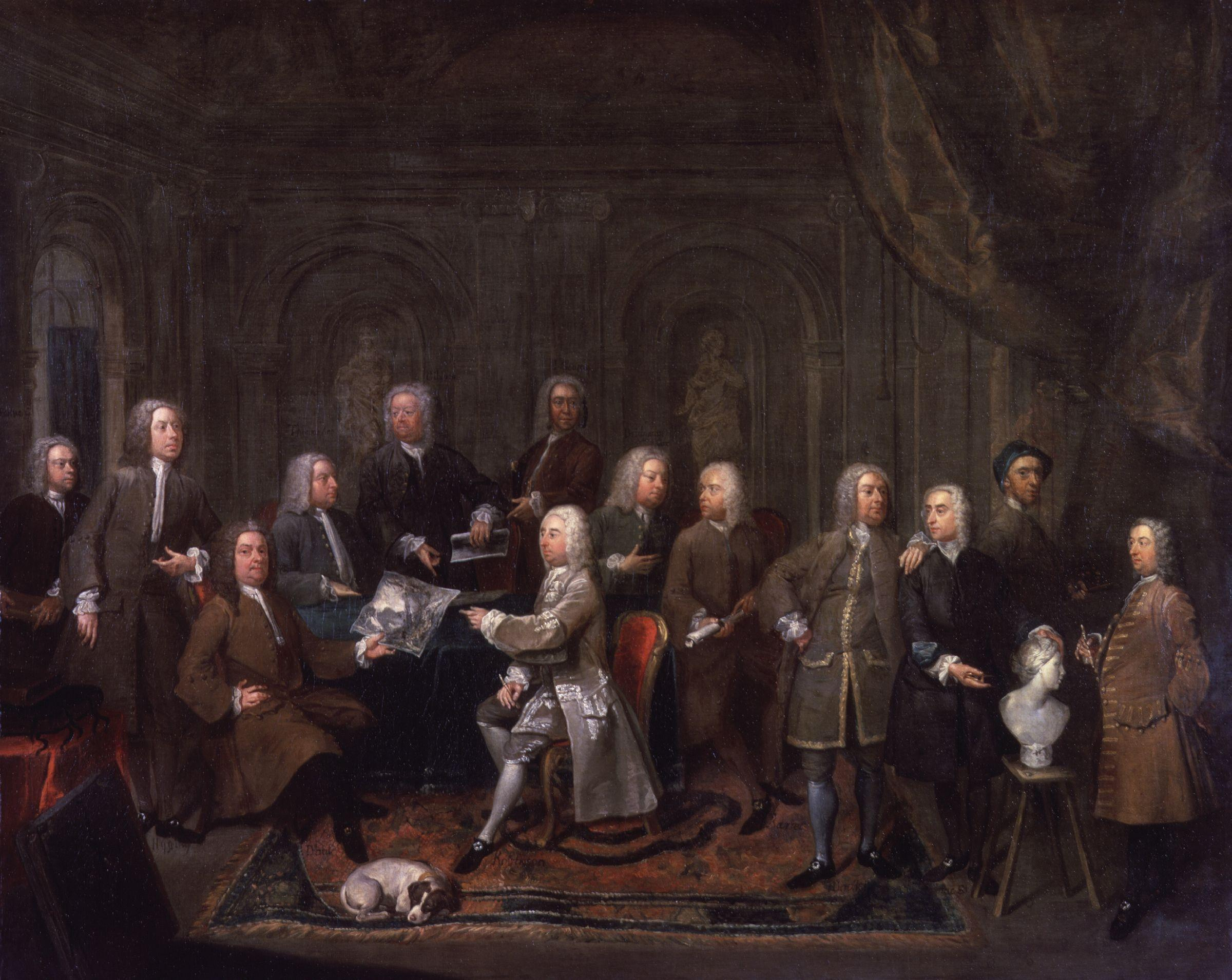 A Conversation of Virtuosis...at the Kings Arms, by Gawen Hamilton (died 1737). People include, from the left to the right : George Vertue, Hans Hysing, Michael Dahl (seated), William Thomas, James Gibbs, Joseph Goupy, Matthew Robinson (seated), Charles Bridgeman, Bernard Baron, engraver, John Wootton, John Michael Rysbrack, Gawen Hamilton, William Kent. All images in this batch have been confirmed as author died before 1939 according to the official death date listed by the NPG.